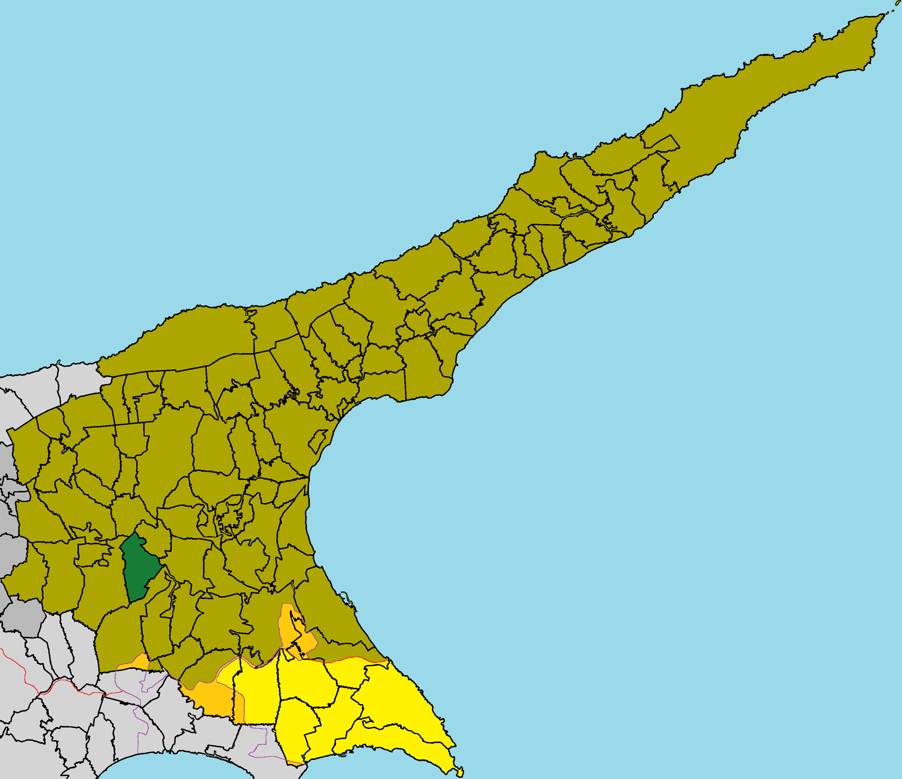 Sinta in Famagusta District (de jure).